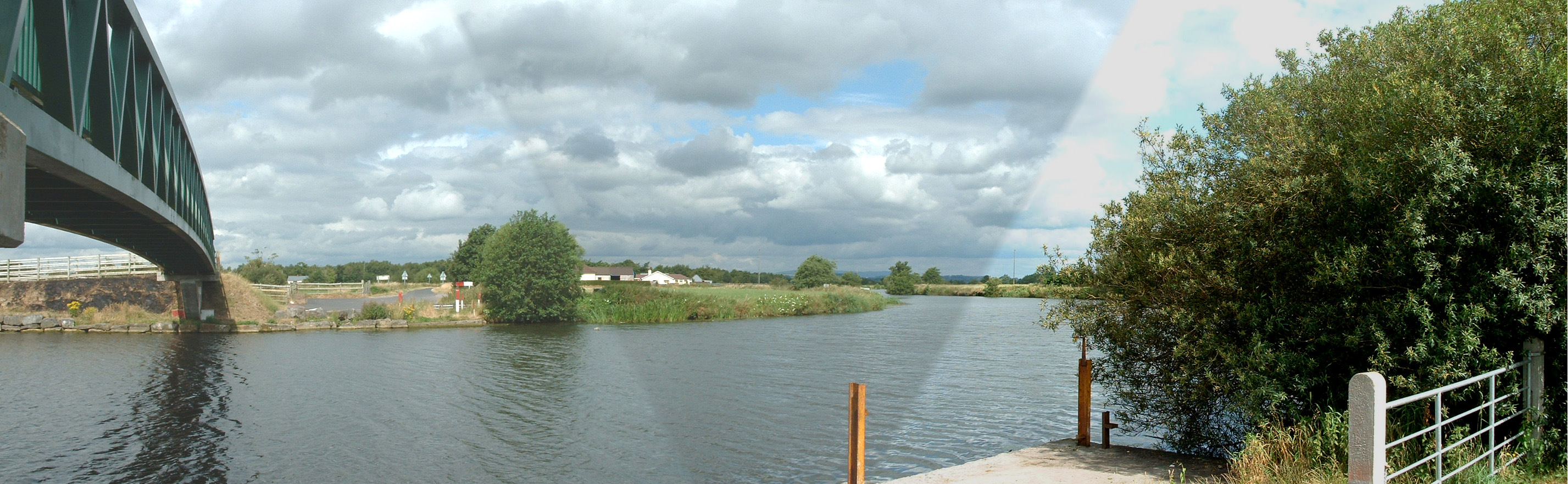 Wide shot of the River Blackwater and Derrylaughan, Tyrone